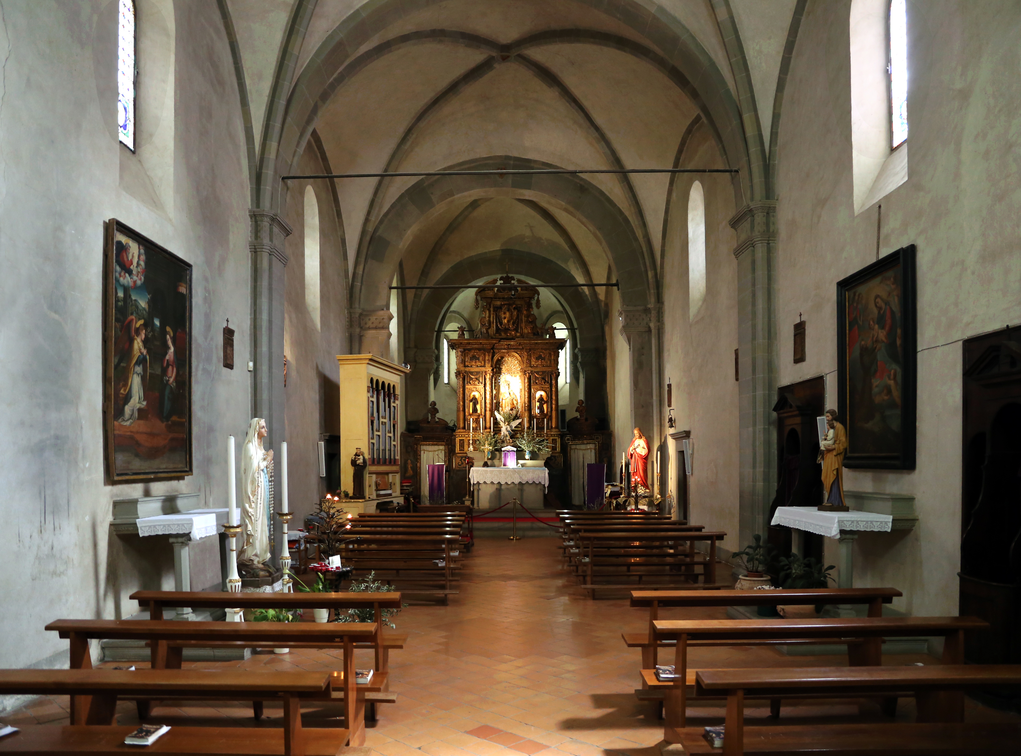 Pieve di San Buonaventura (Bosco ai Frati)